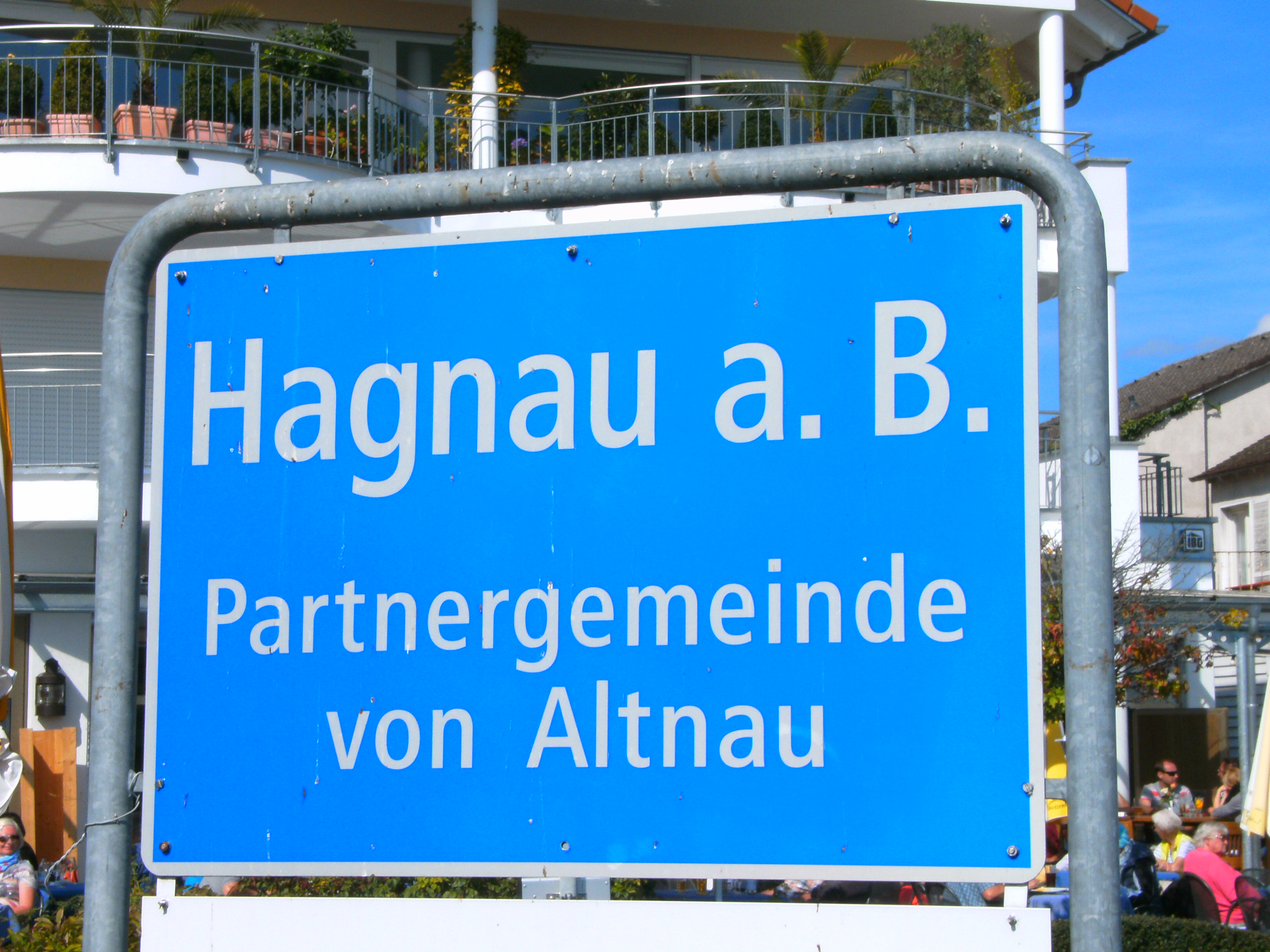 Hagnau am Bodensee: Partnership with Altnau, Switzerland. Historic relations by frozen Lake Constance.